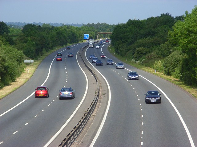 The A329(M), Wokingham The motorway that links Reading and Bracknell to each other and the M4. Here it marks the northern boundary of Wokingham. The bridge on the A321 can be seen ahead.